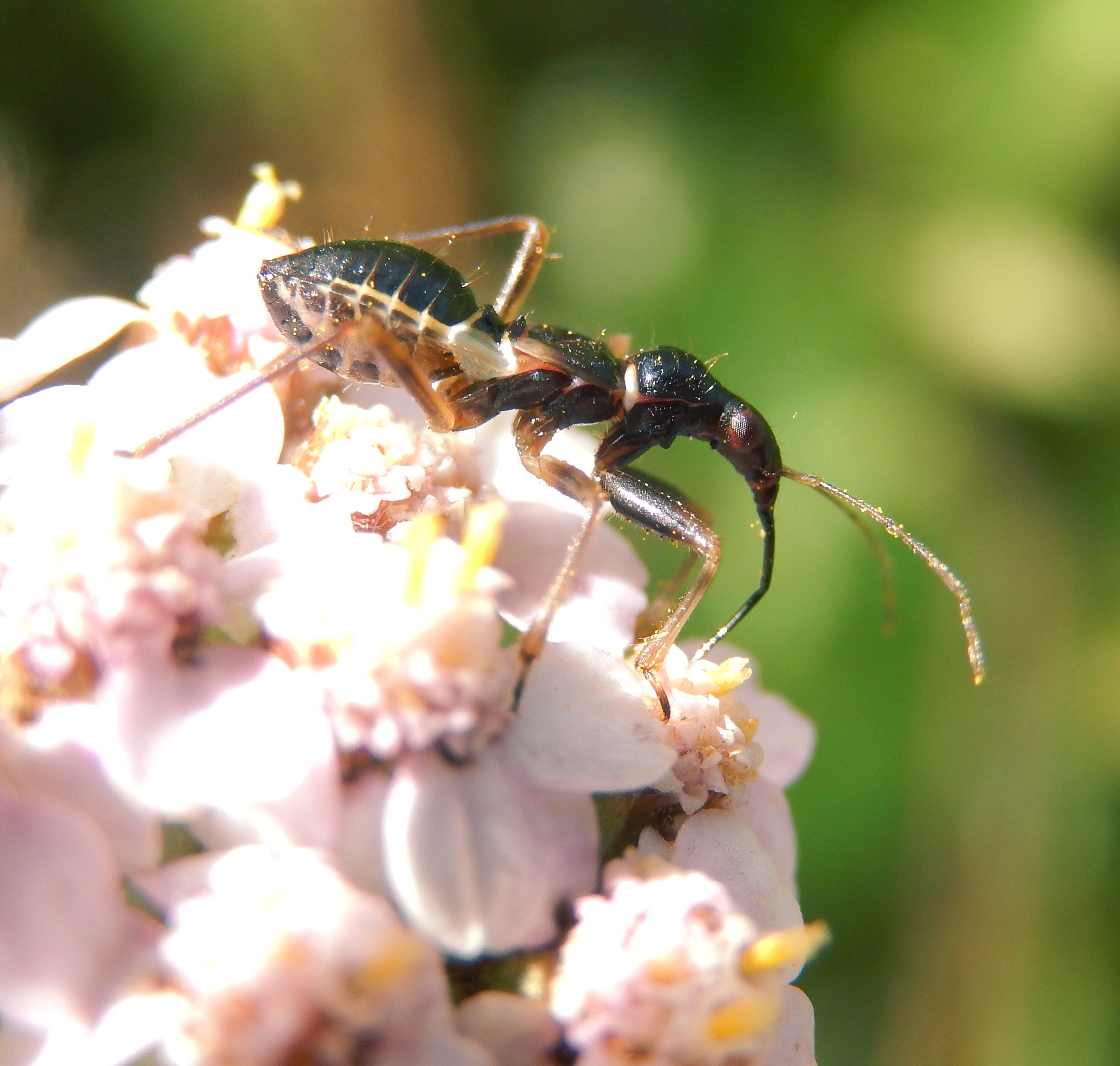 Ant-mimic predatory bug, Myrmecoris gracilis, side view showing long rostrum, on yarrow